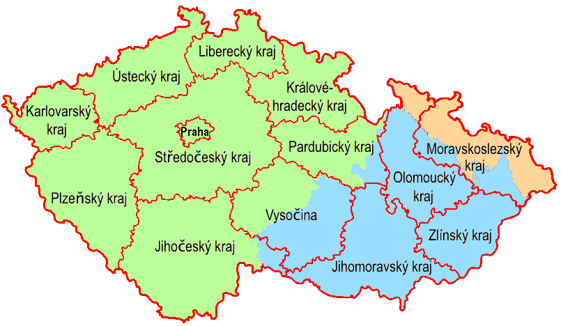 modern kraje and historical three parts of Czech Republic, recoloured and texted